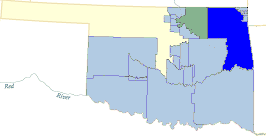 Map of the Cherokee Oklahoma Tribal Statistical Area. Taken from a public domain Census Bureau map, and cropped and recolored somewhat by me. Cherokee Oklahoma Tribal Statistical Area Another Oklahoma Tribal Statistical Area Indian Reservation Another part of Oklahoma Outside of Oklahoma